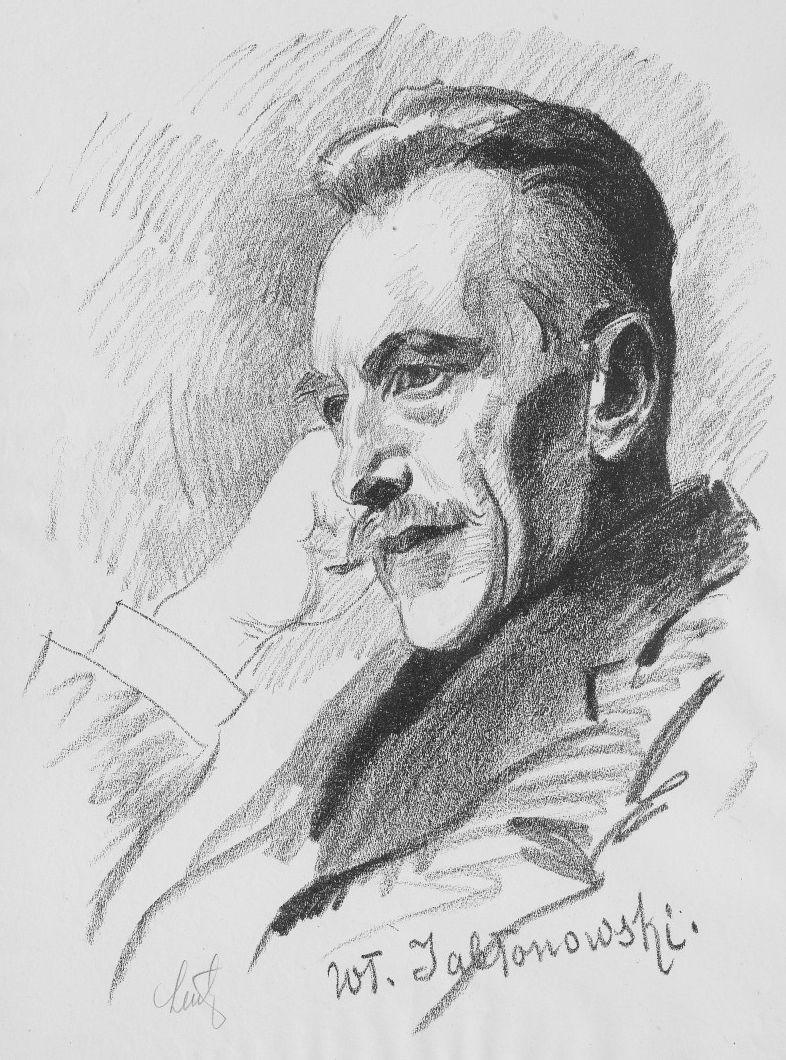 Władysław Jabłonowski's portrait by S. Lentz.